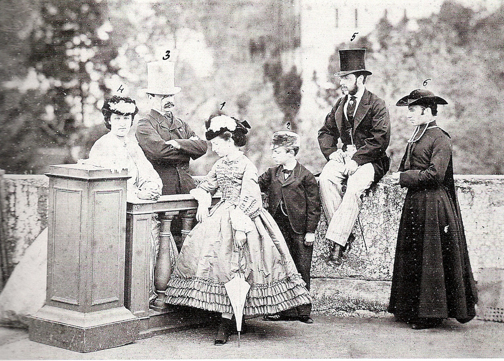 Princess Margherita (later Queen of Italy) and Prince Thomas of Savoy (later 2nd Duke of Genoa) with their tutors.